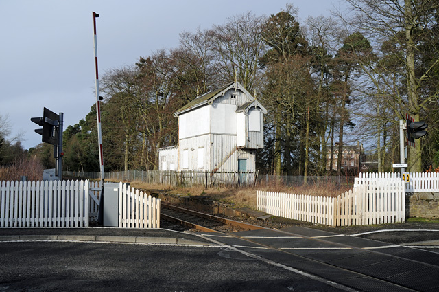 Level Crossing and Disused Signal Box Murthly Disused signal box at the site of the former station at Murthly. This is boarded up and the stairs have been removed. Level Crossing on main Perth - Inverness rail line.